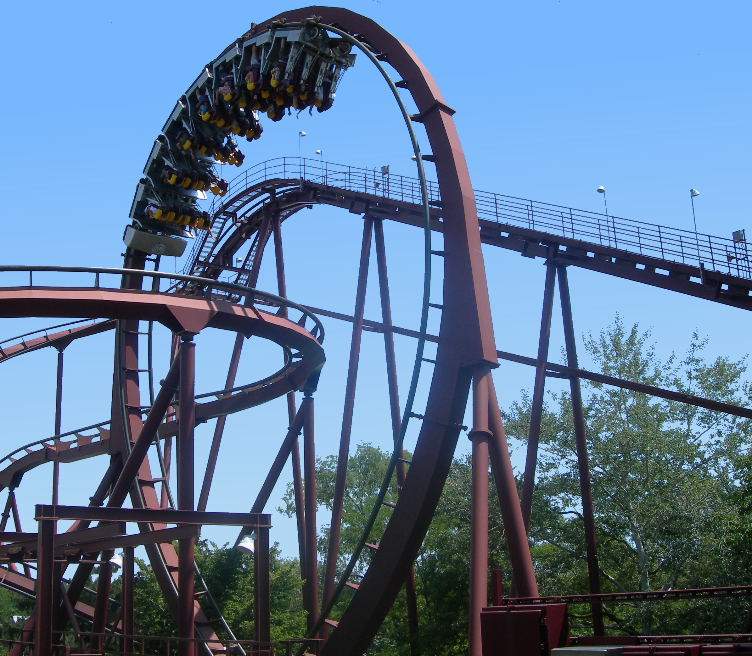 Iron Wolf stand-up roller coaster at Six Flags Great America